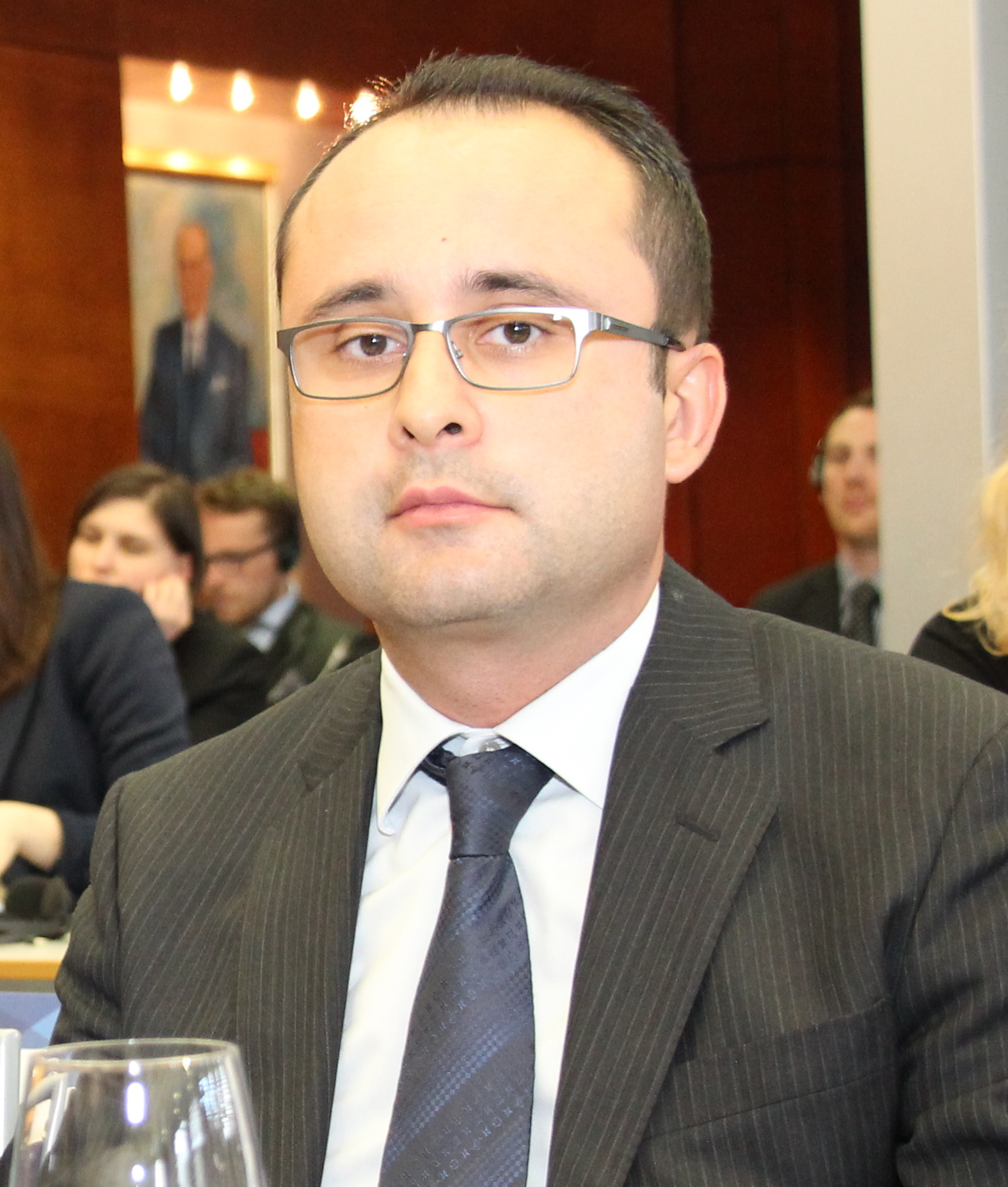 EPP Political Assembly 1-2 June 2015